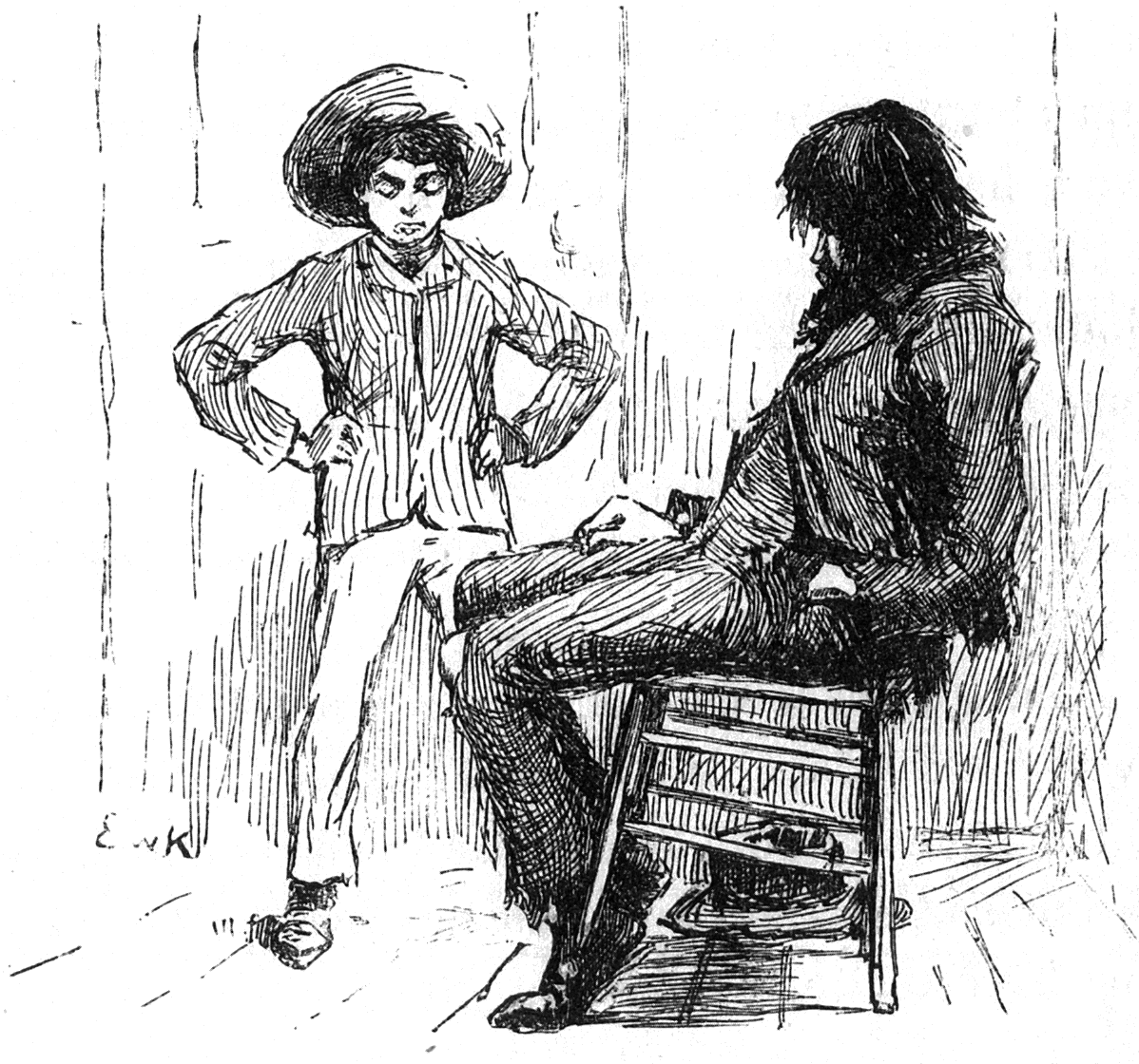 Huck and his Father